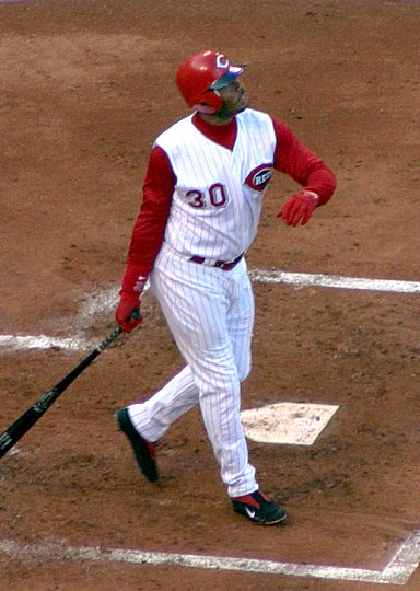 Ken Griffey, Jr., Cincinnati Reds, 2004, by Rick Dikeman